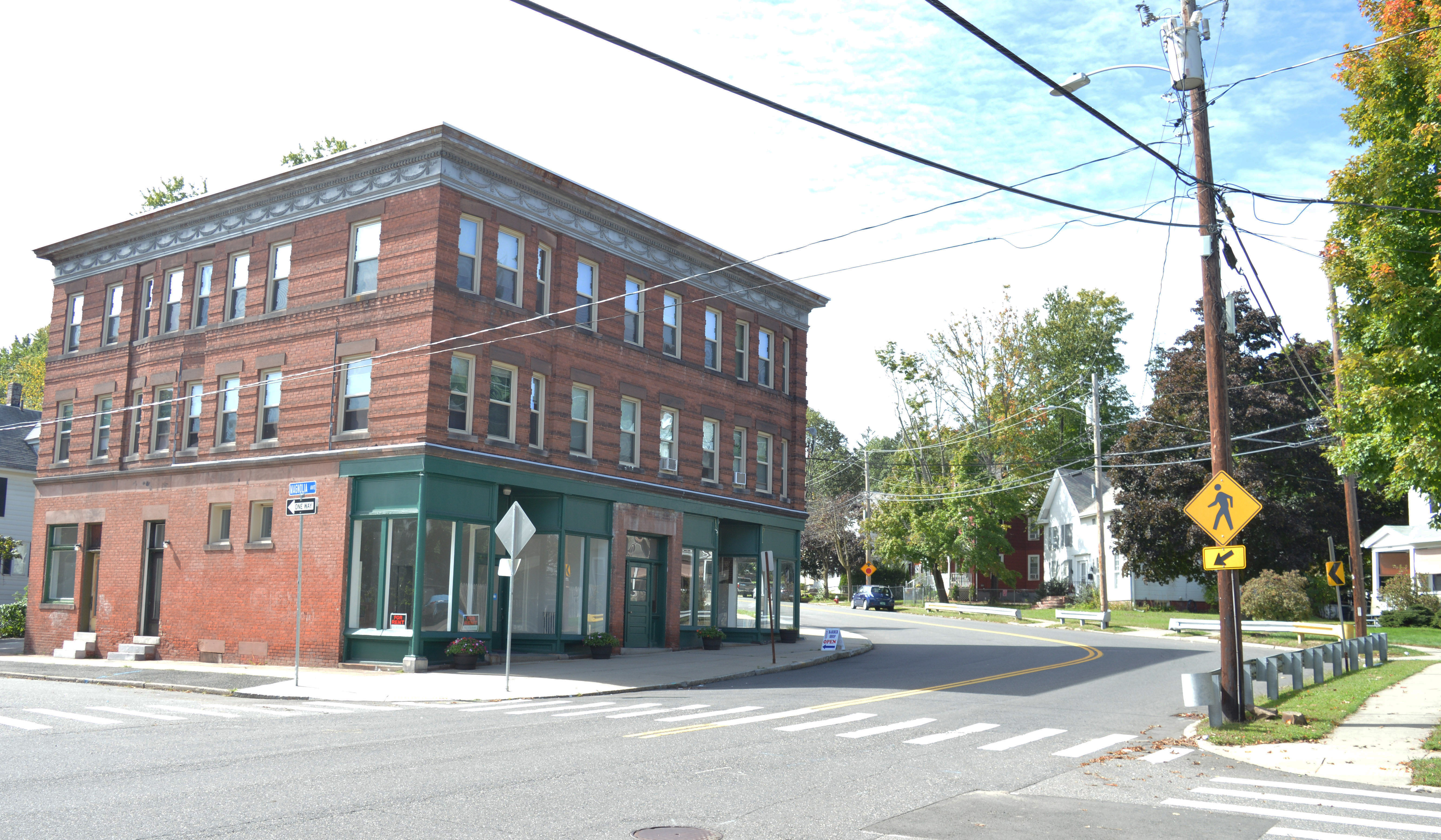 The Oakdale Pharmacy Building on Sargeant Street; designed by Oscar Beauchemin and built in 1910, it was once a trolley stop for the Holyoke Street Railway and is among the only commercial blocks of Oakdale.